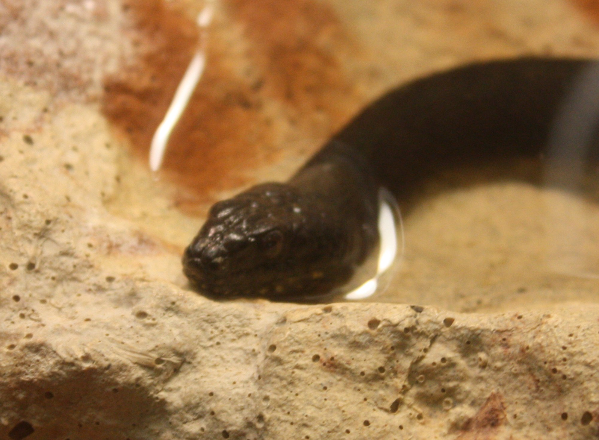 Mangrove Water Snake Nerodia fasciata copressicauda (synonymized with Nerodia clarkii compressicauda) at Cincinnati Zoo